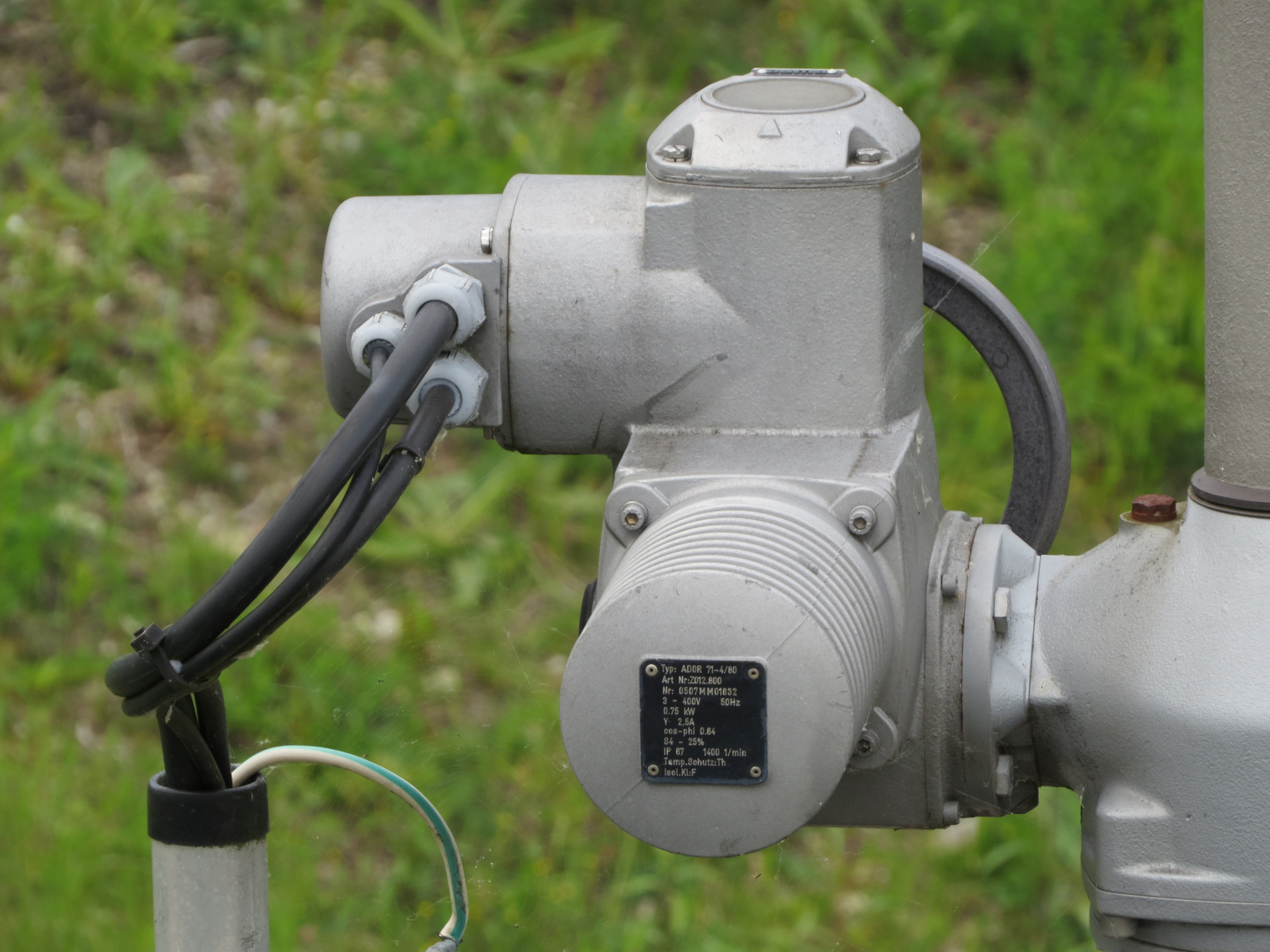 Rotary drive for gate valve from AUMA-Armaturenantriebe Ges.m.b.H. at Fischwanderhilfe Donaukraftwerk Melk, Austria